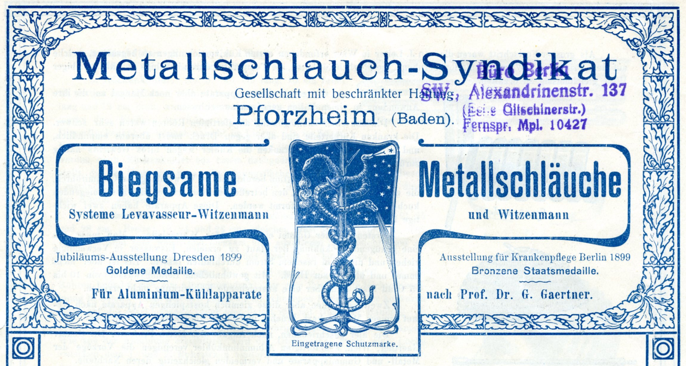 an early leavlet with the Hydra Logo